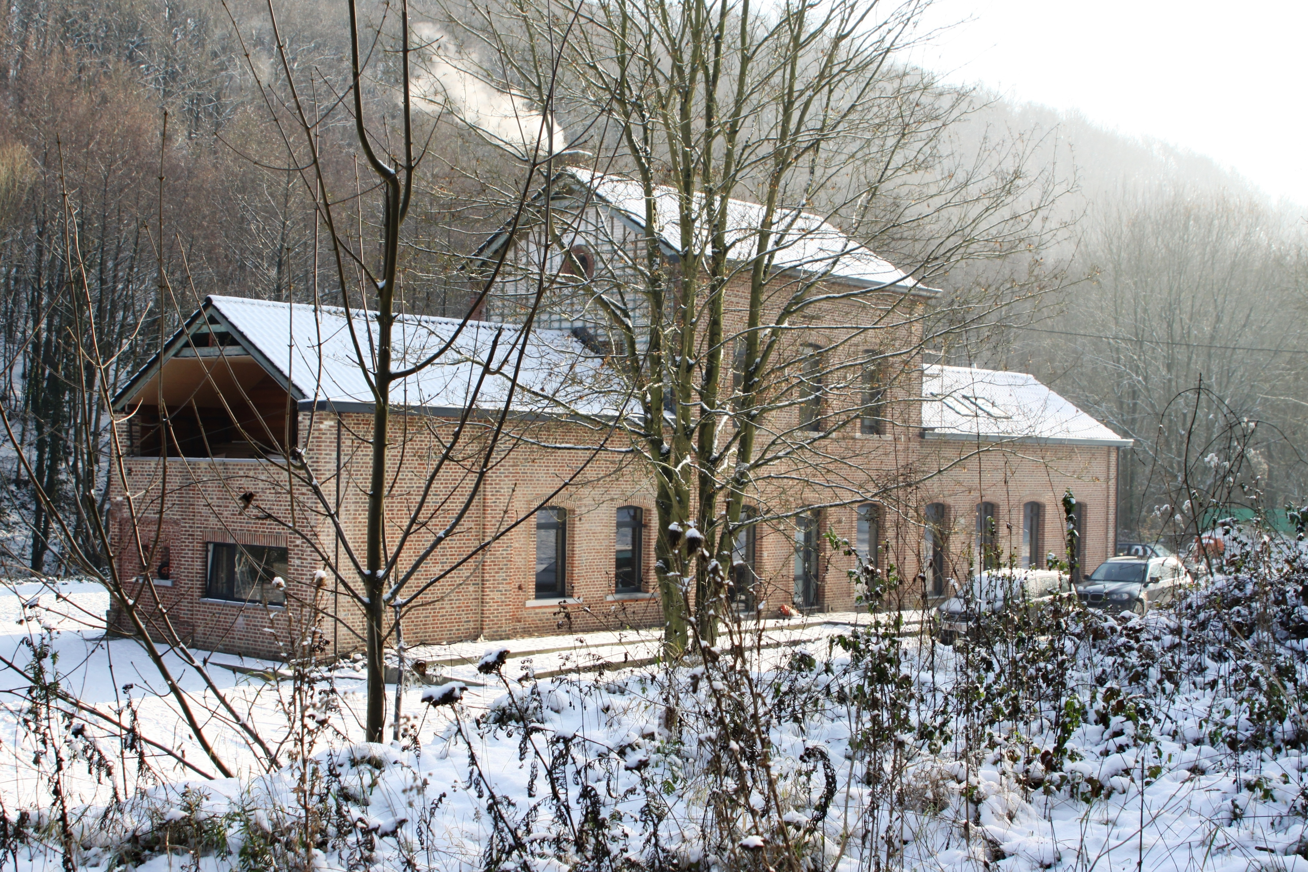 Former train station of Acoz in Hainaut (Belgium) line 138